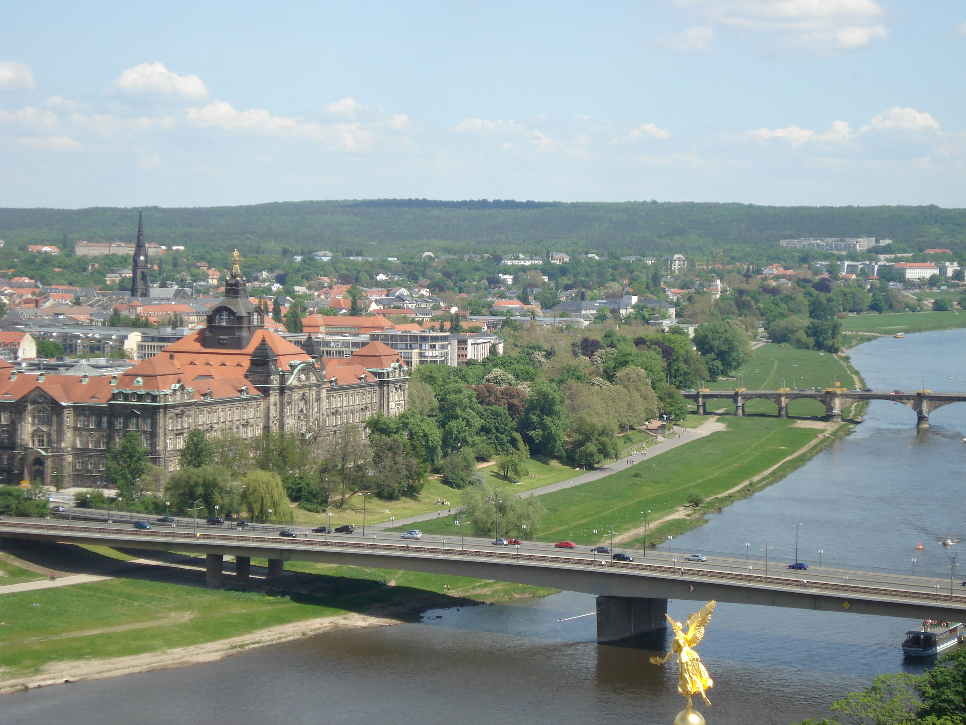 The terrain of Dresden